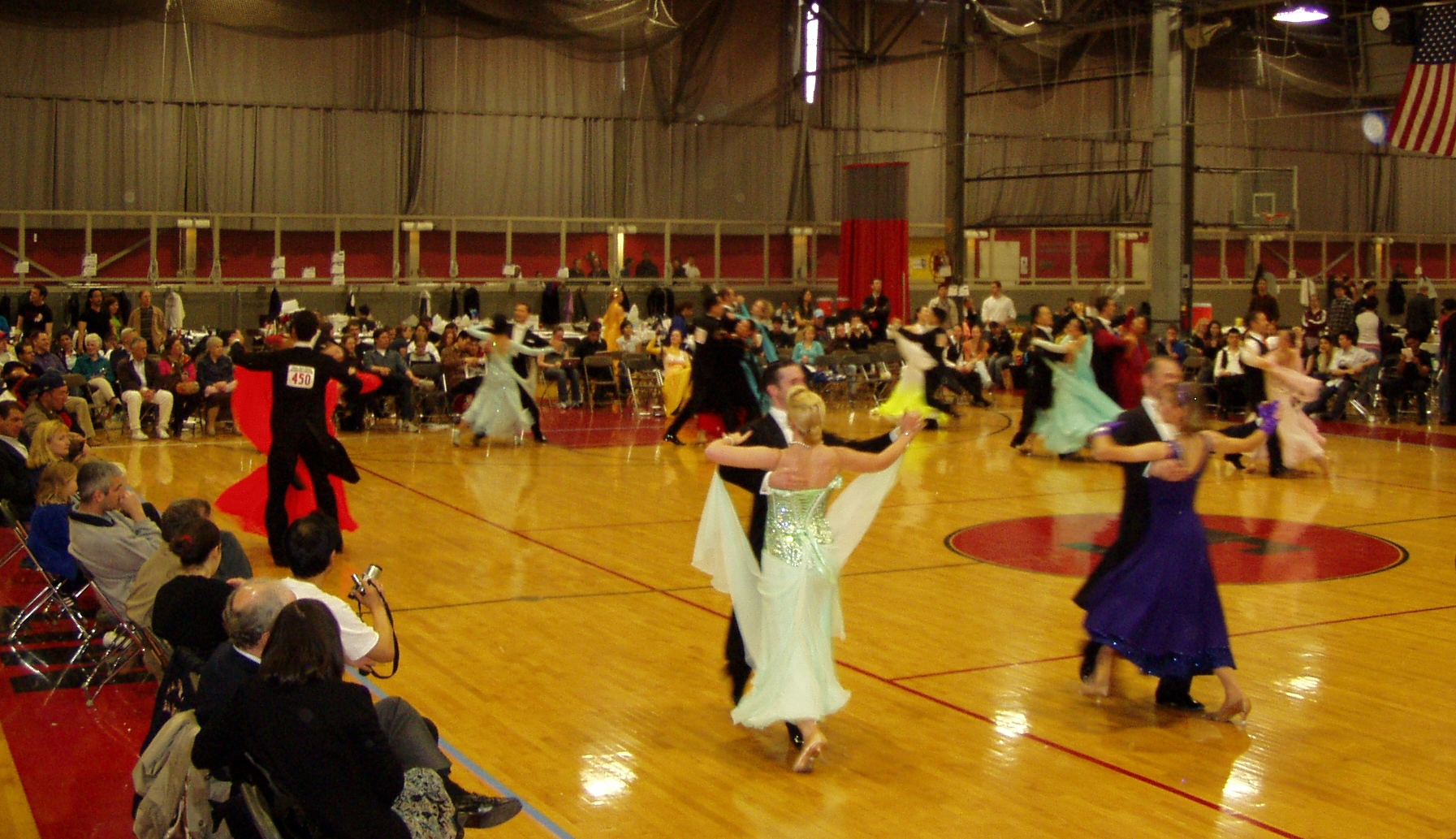 Standard dancing (prechampionship final) at the 2006 MIT Ballroom Dance Competition